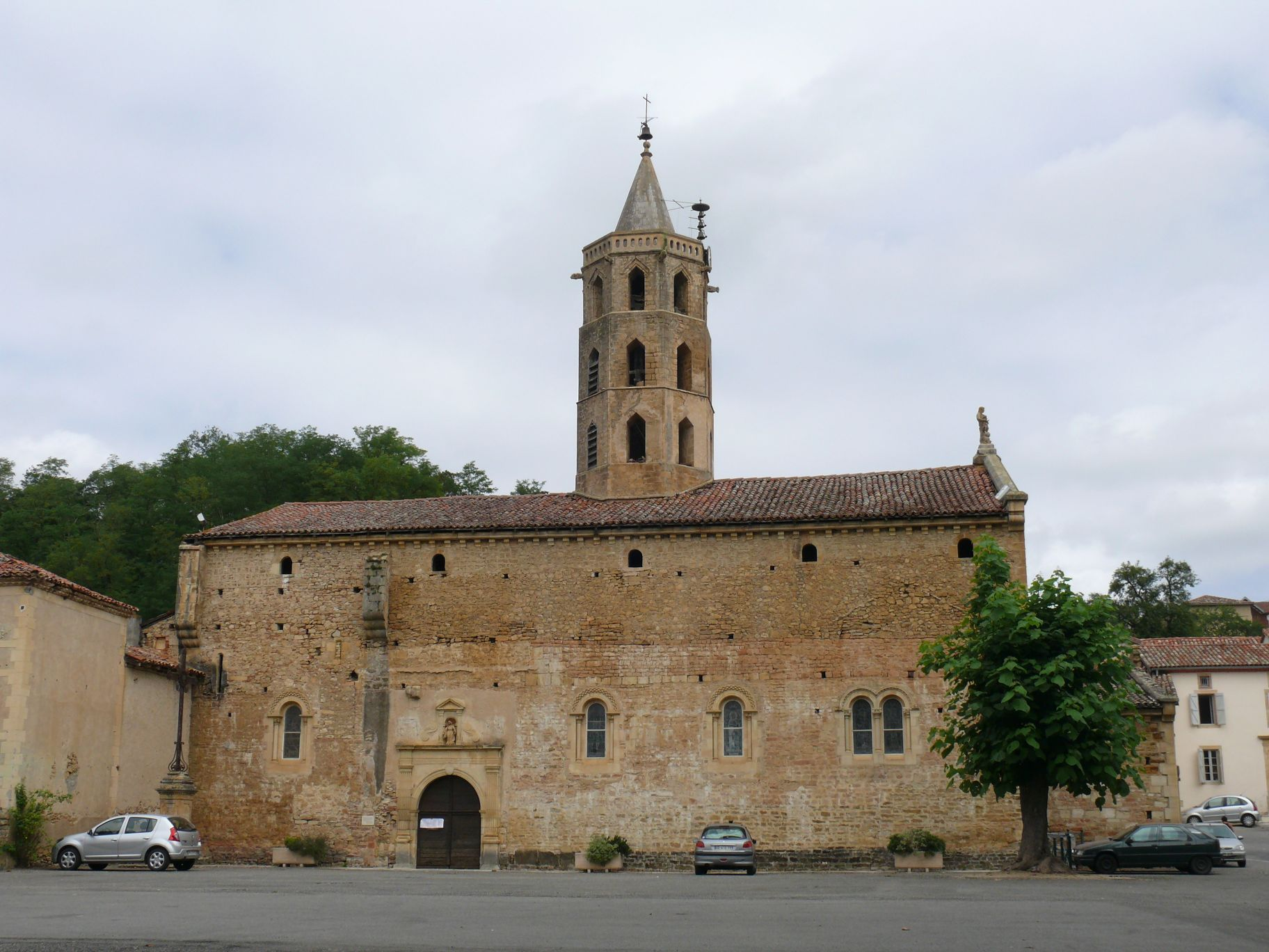 Our Lady's church of Aulon (Haute-Garonne, Midi-Pyrénées, France).